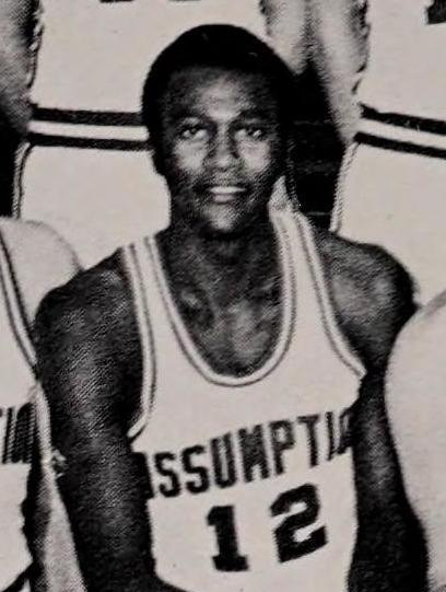 A full scan of an edition of Heights, the yearbook of Assumption College (now known as Assumption University)